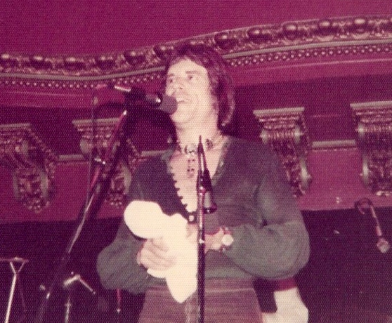 John Guerin plays with L.A. Express at the Great American Music Hall in San Francisco, California.